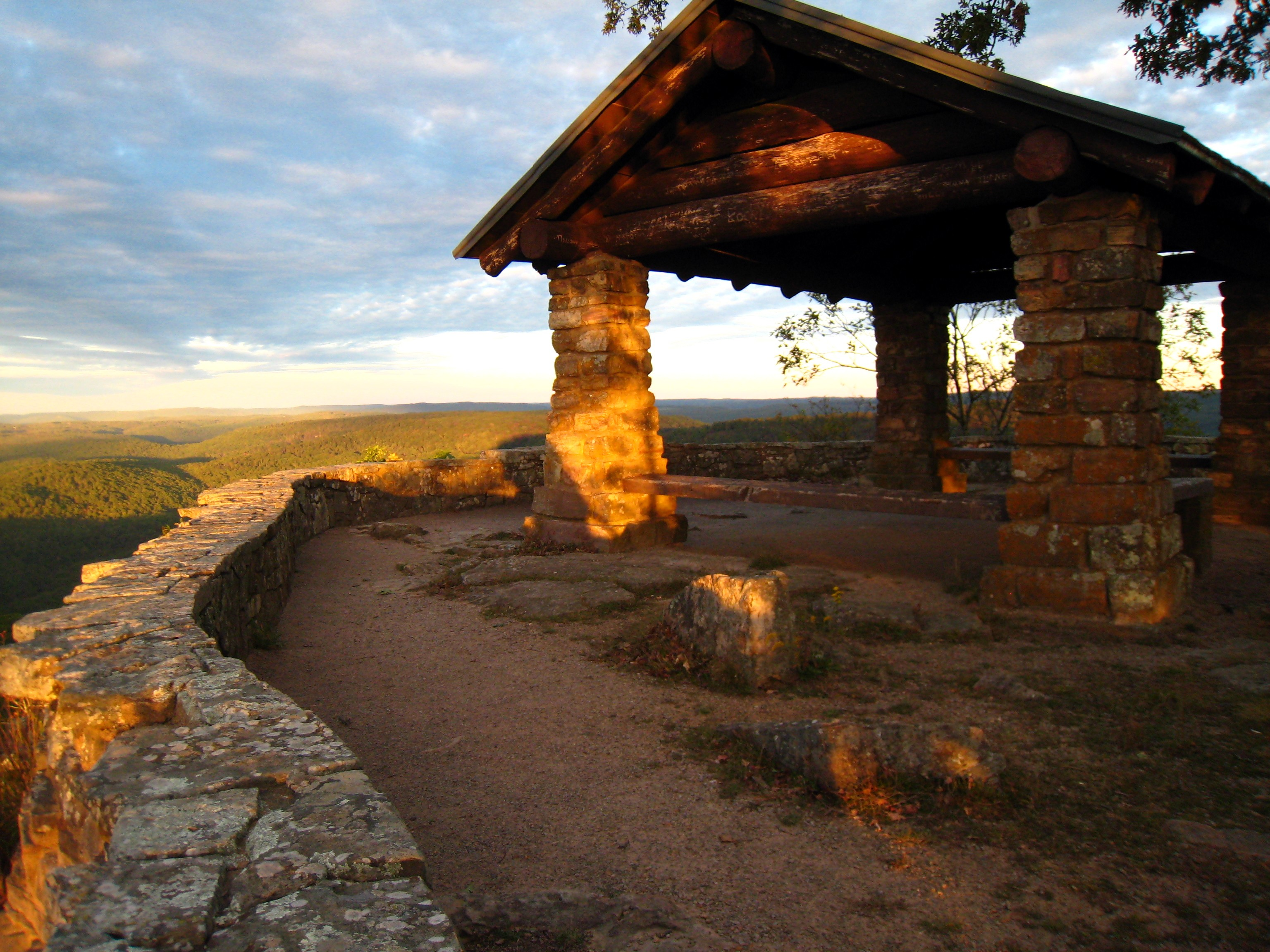 The main stone and timber shelter on White Rock Mountain was built by the Civilian Conservation Corps (CCC) in the 1930's. Formed by President Franklin D. Roosevelt during The Great Depression, the CCC also built three cabins and a lodge on White Rock Mountain. View Large on Black